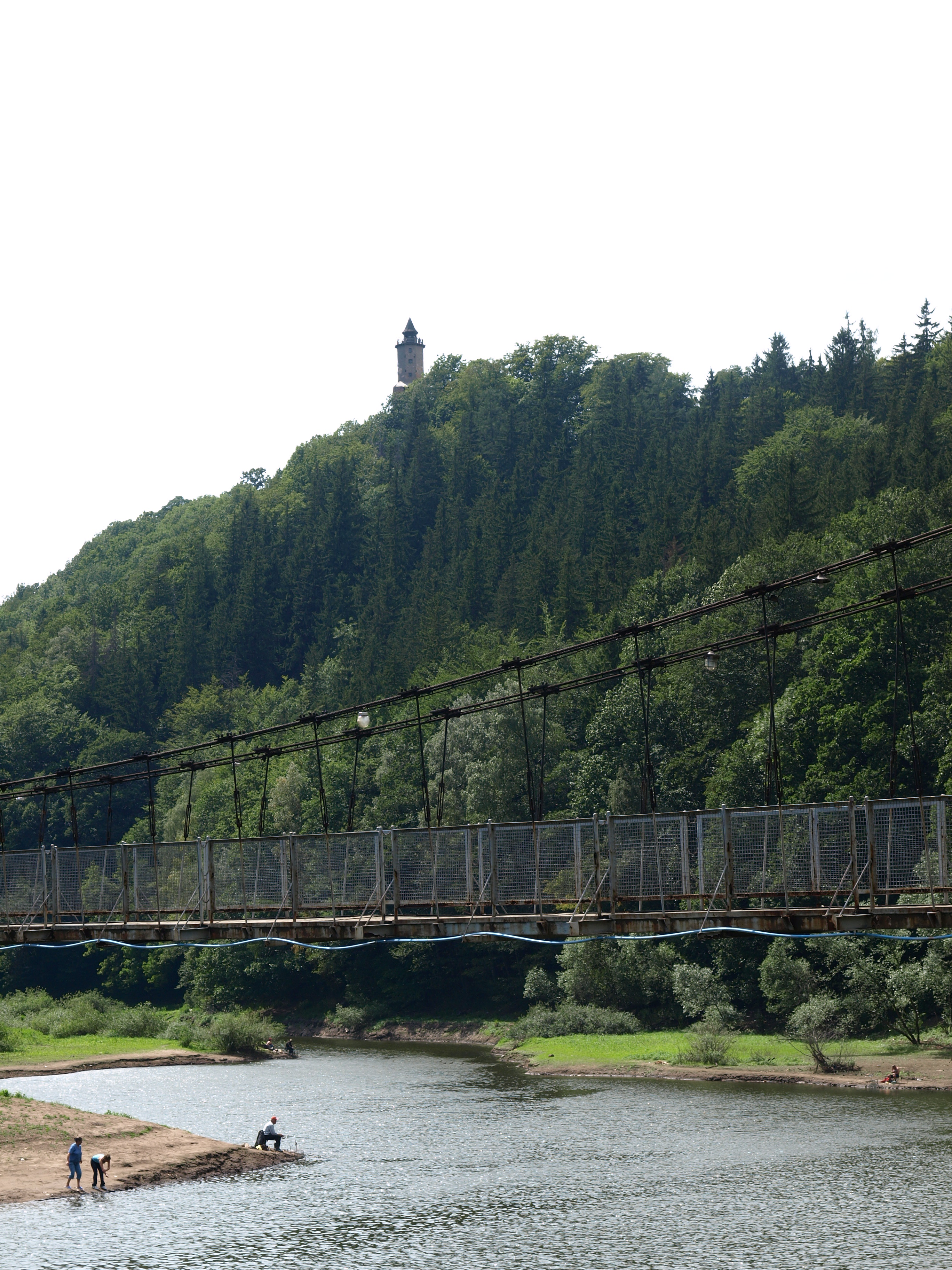 Bystrzyca in Lubachów, Poland.